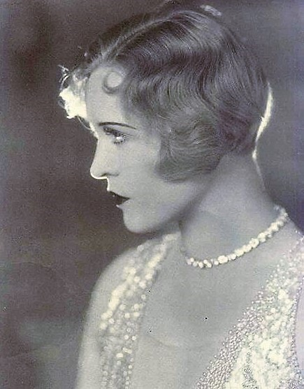 Phyllis Haver